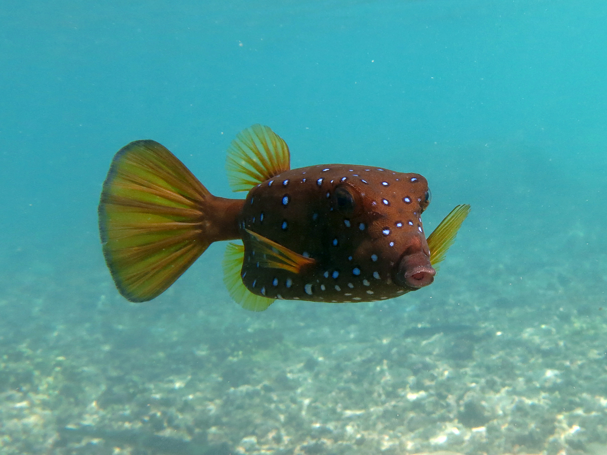 A yellow boxfish (Ostracion cubicus) in Réunion island.